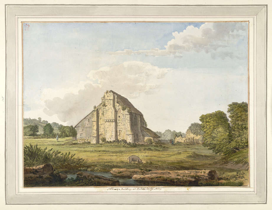 view of the north-west view of the ruins of Robertsbridge Abbey in East Sussex, England